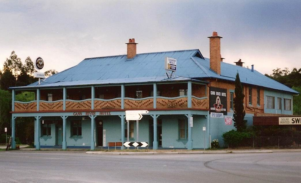 Cann River Hotel 1995